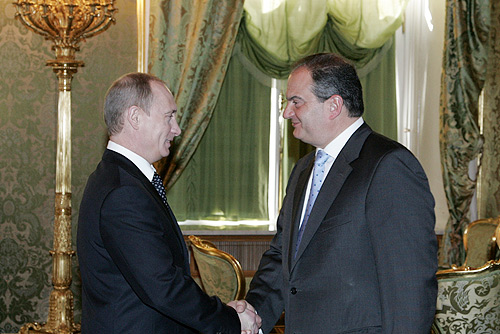 THE KREMLIN, MOSCOW. With Greek Prime Minister Konstantinos Karamanlis.